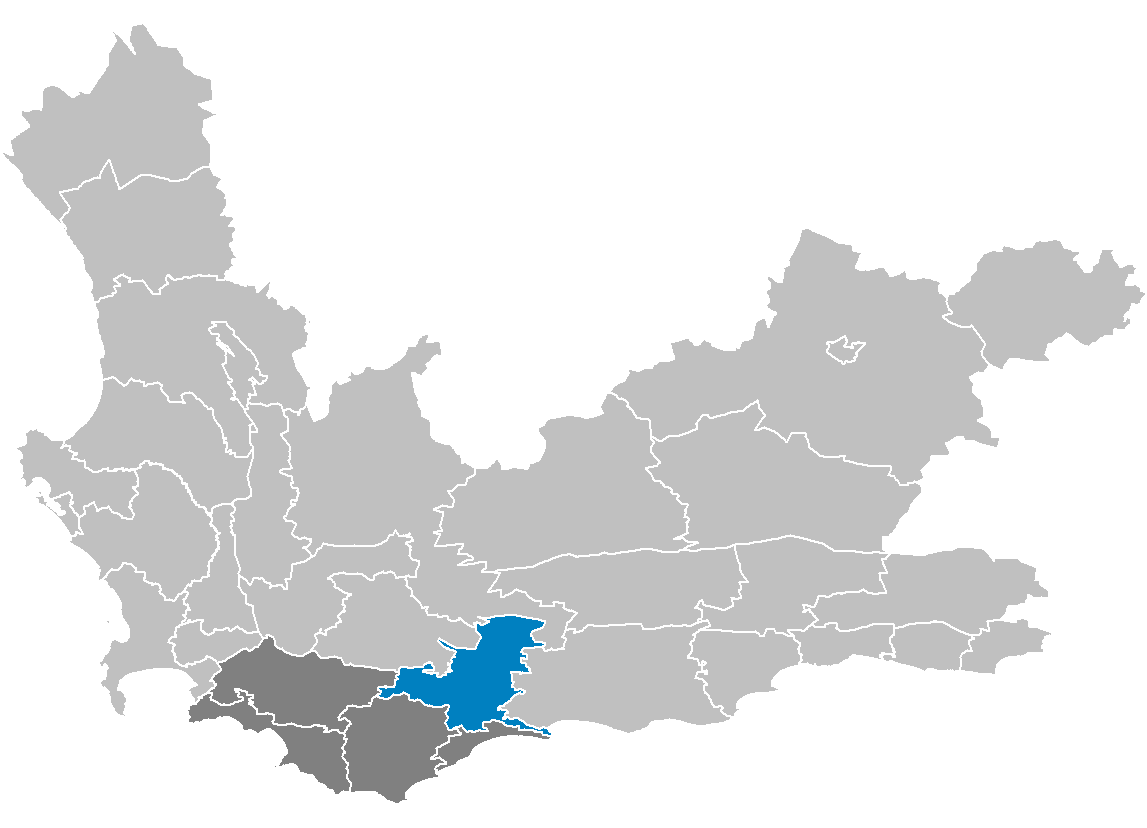 Map showing the Swellendam Local Municipality, within the Overberg District Municipality, within the Western Cape.